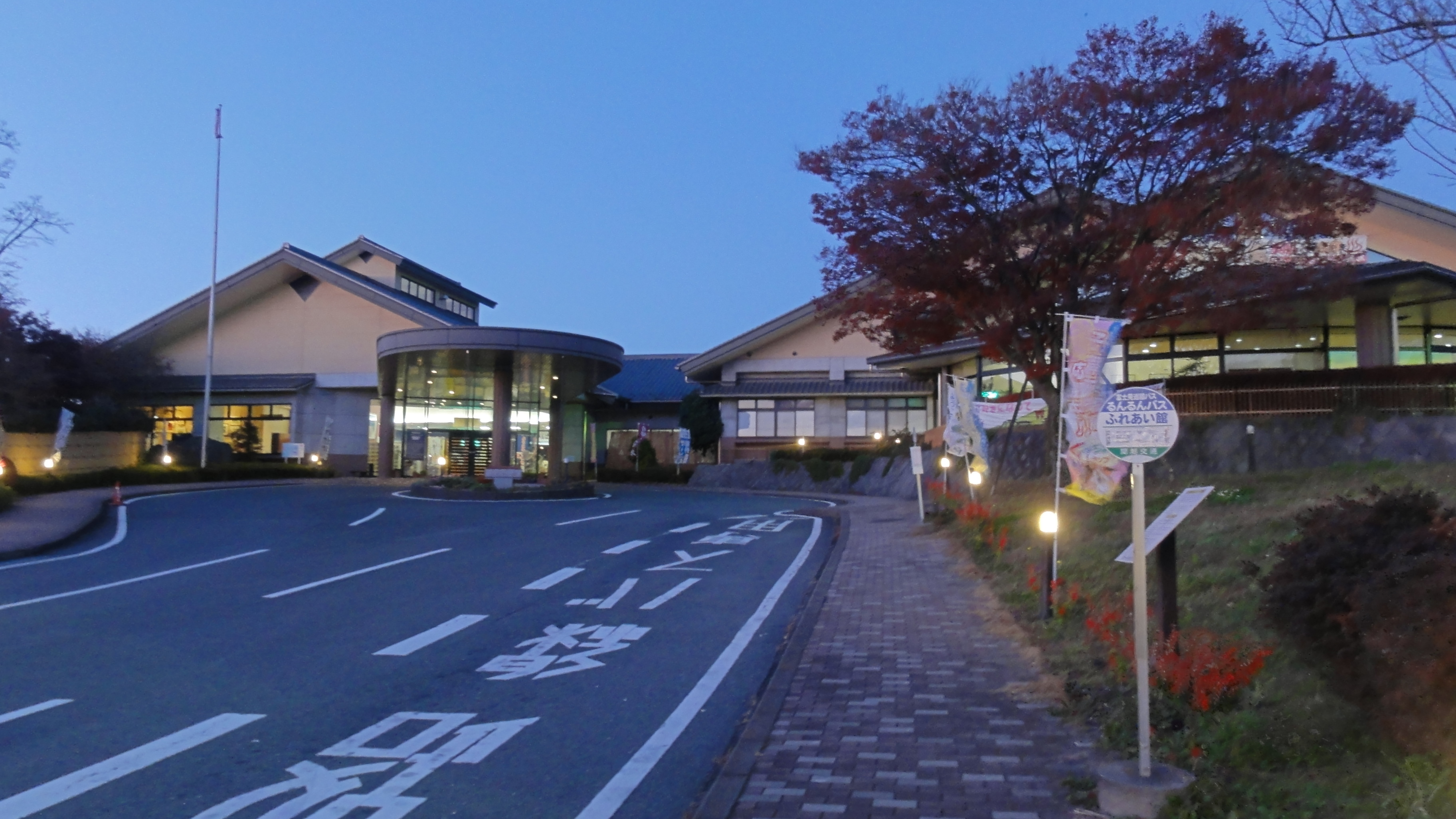 Road to station Fujimi,Gunma prefecture,Japan